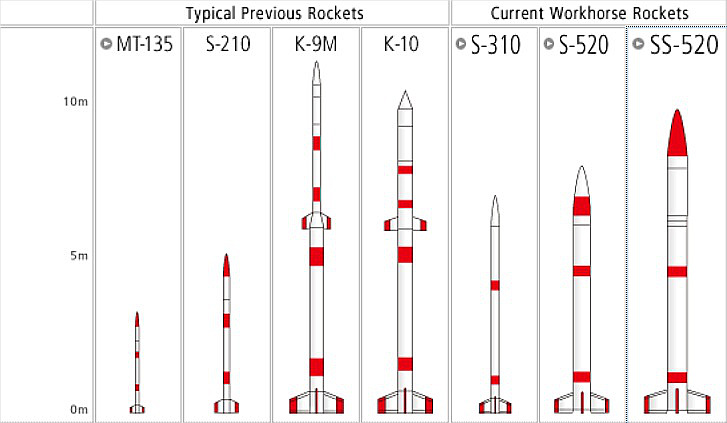 Japanese sounding rockets shapes.